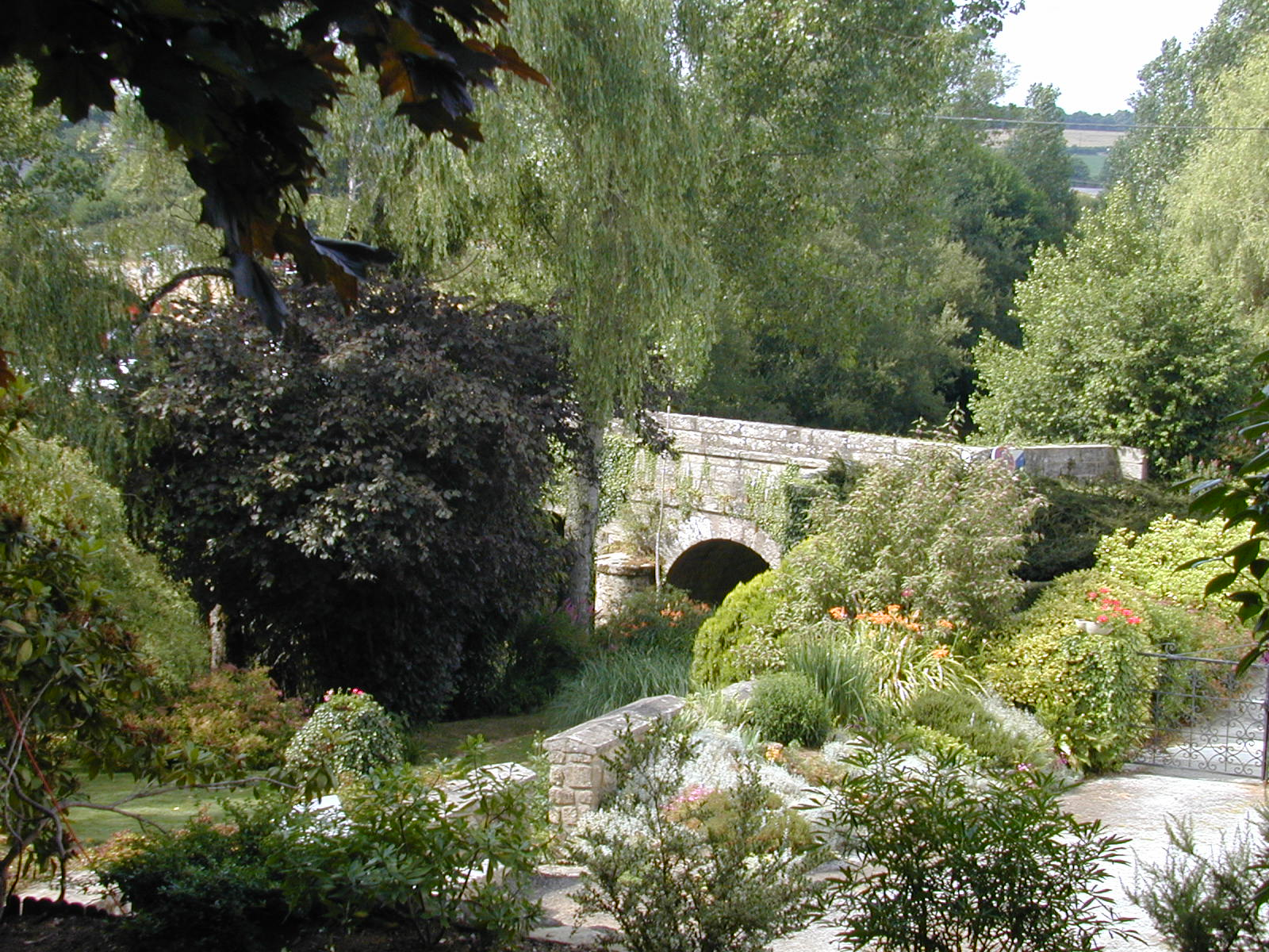 Saint Mélaine's bridge